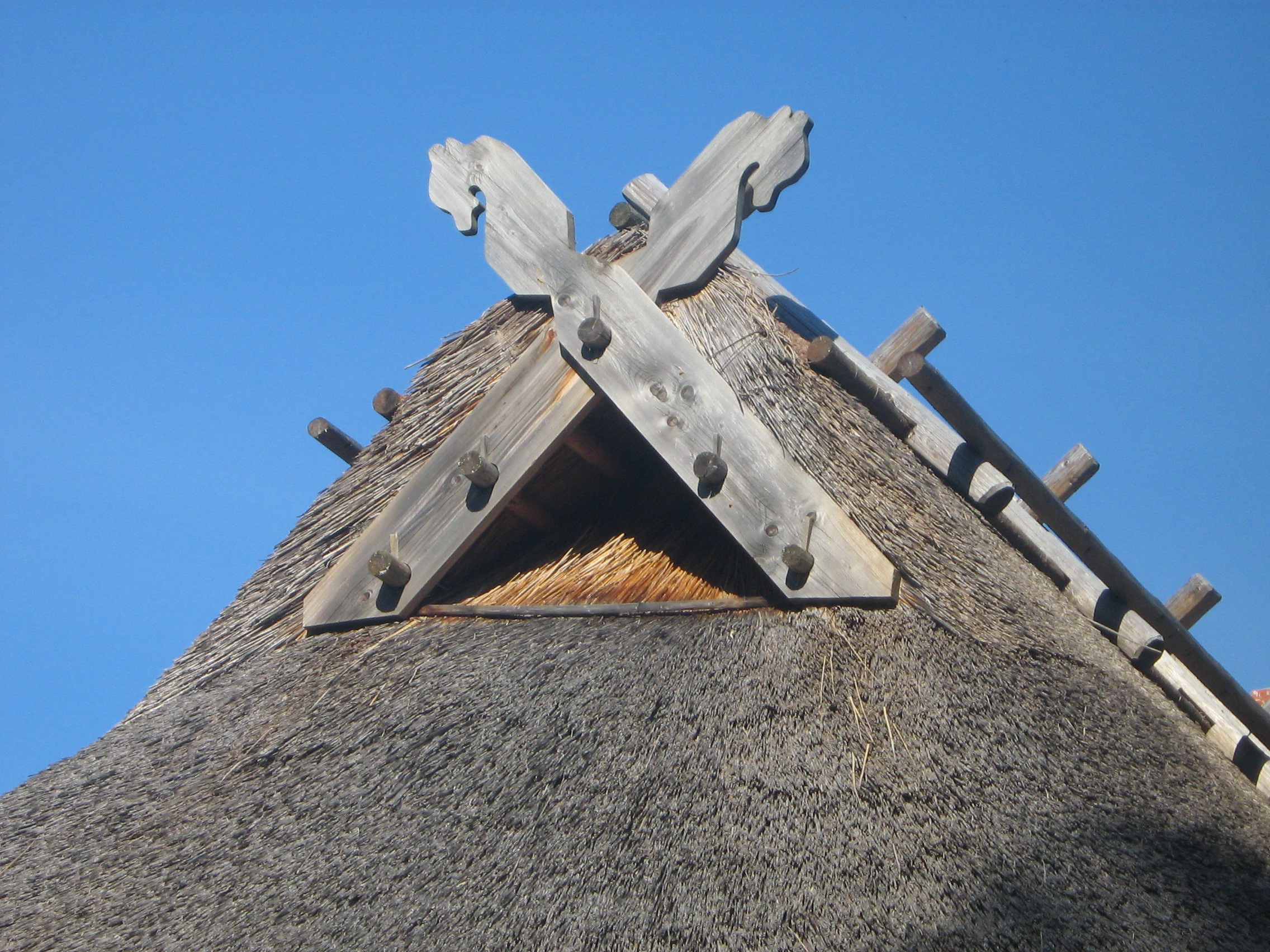 A roof of building from Courland in Latvian open air museum